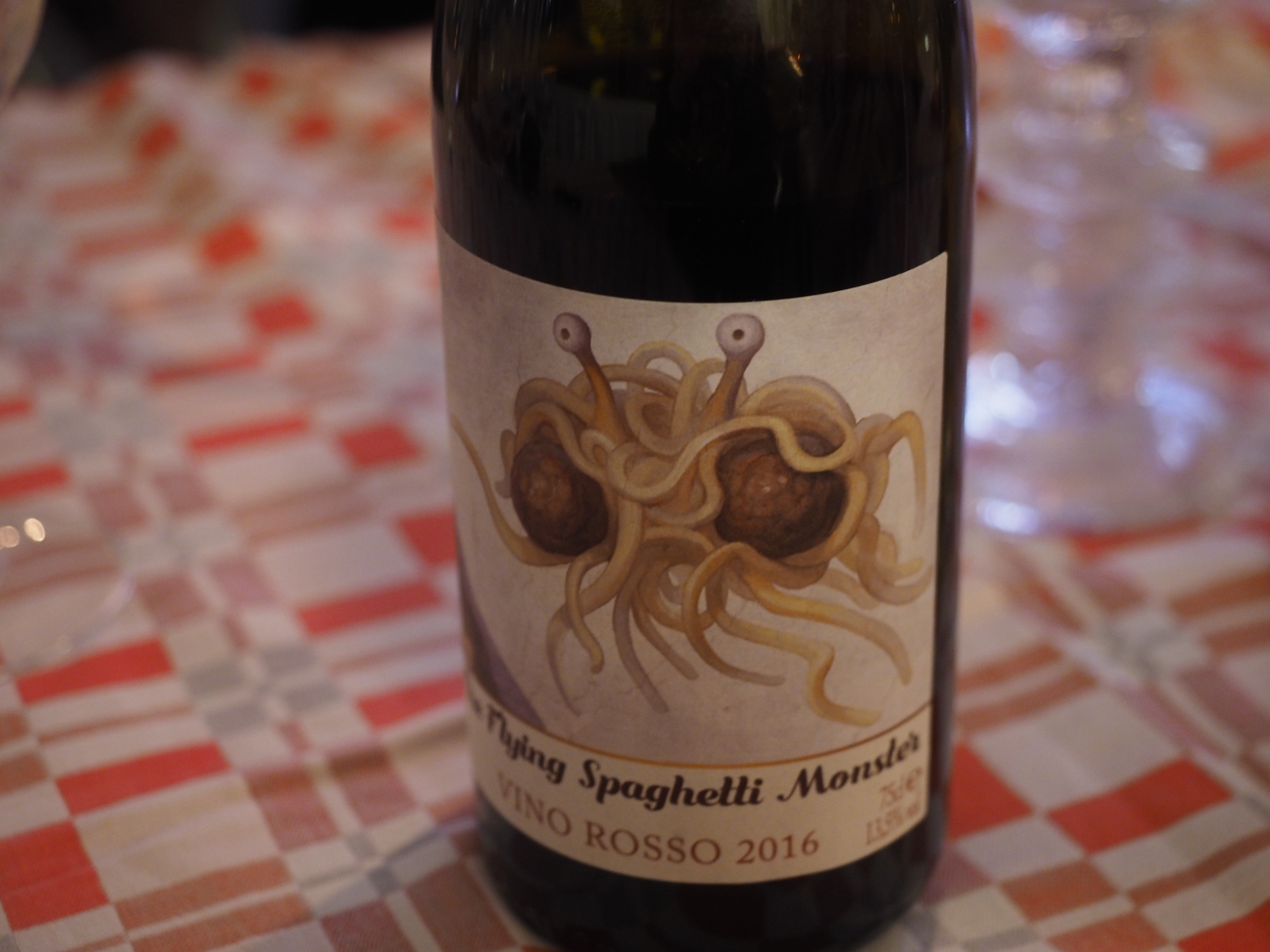 A bottle of "Flying Spaghetti Monster Vino Rosso" red wine, showing the label depicting the Flying Spaghetti Monster.